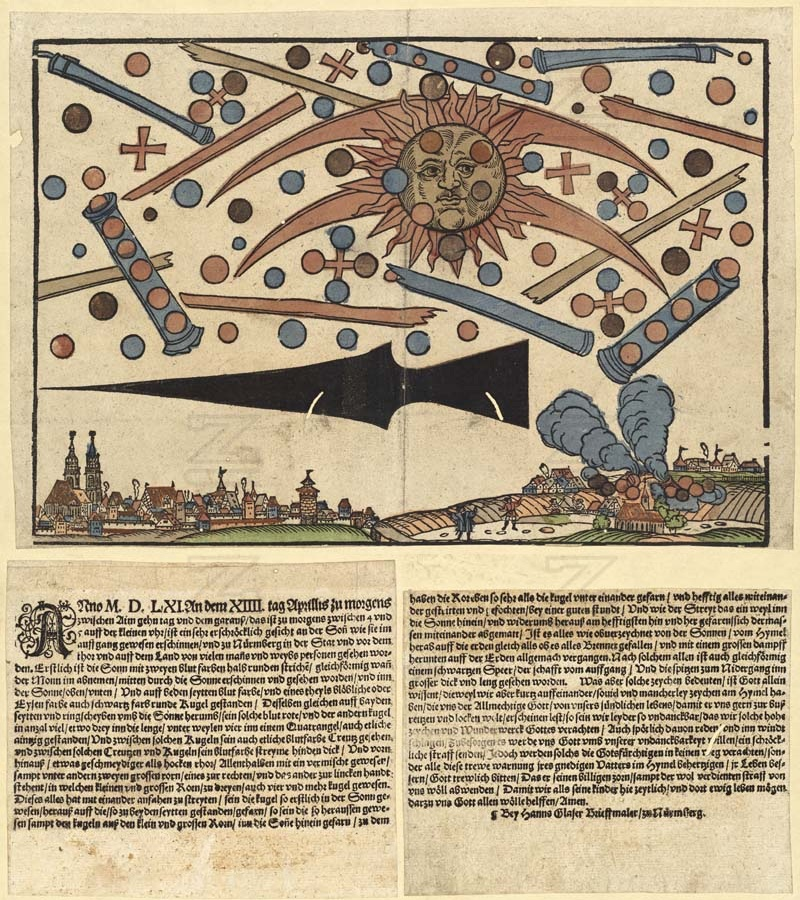 News notice (an early form of newspaper) printed on 14 April 1561 in Nuremberg, describing the celestial phenomenon that occurred over Nuremberg on the 4th of April 1561. From Wickiana collection, an important collection of news items from the 16th century.